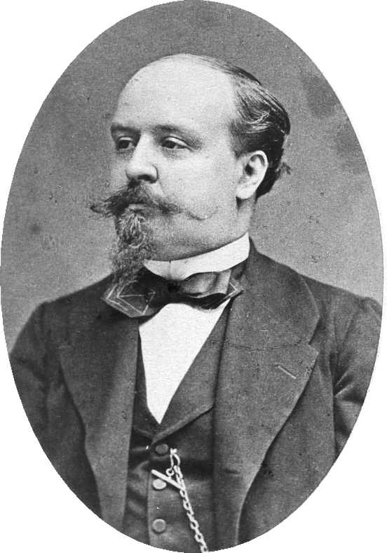 Juliusz Kossak